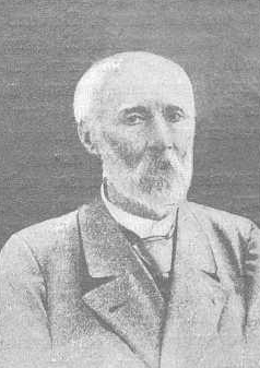 Fyodor Bredikhin